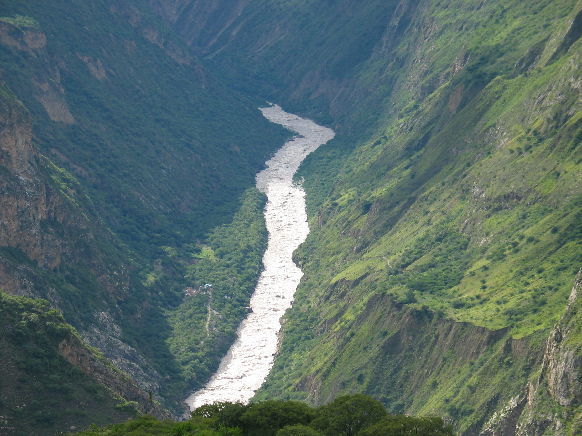 The Rio Apurimac in a valley in the Apurímac Region